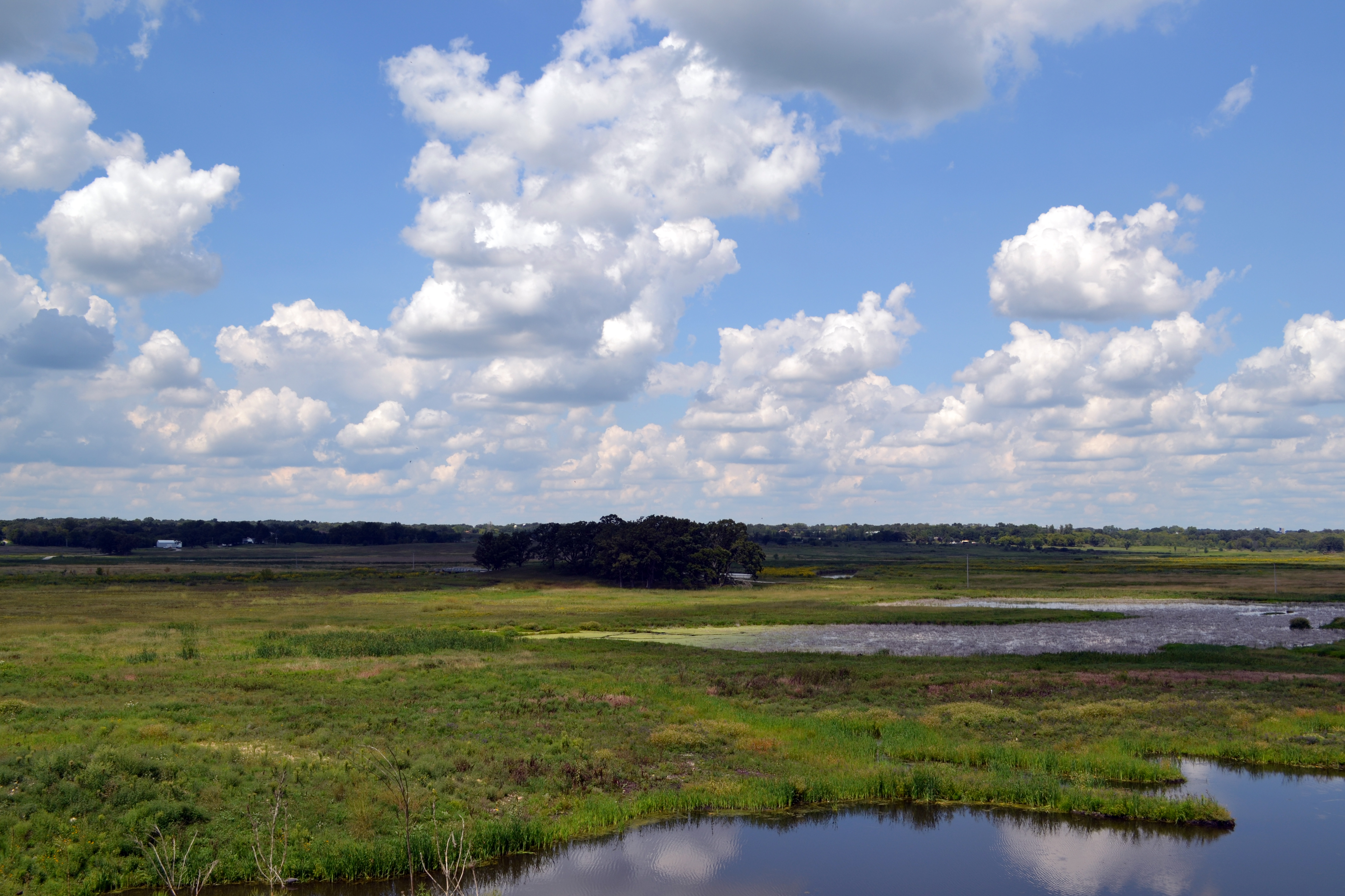 Glacial Park has long been considered one of the jewels of the county’s open space holdings, characterized by its rolling prairie, wetlands, delta kames, oak savanna and the tranquil presence of Nippersink Creek. Photo by Tina Shaw/USFWS.